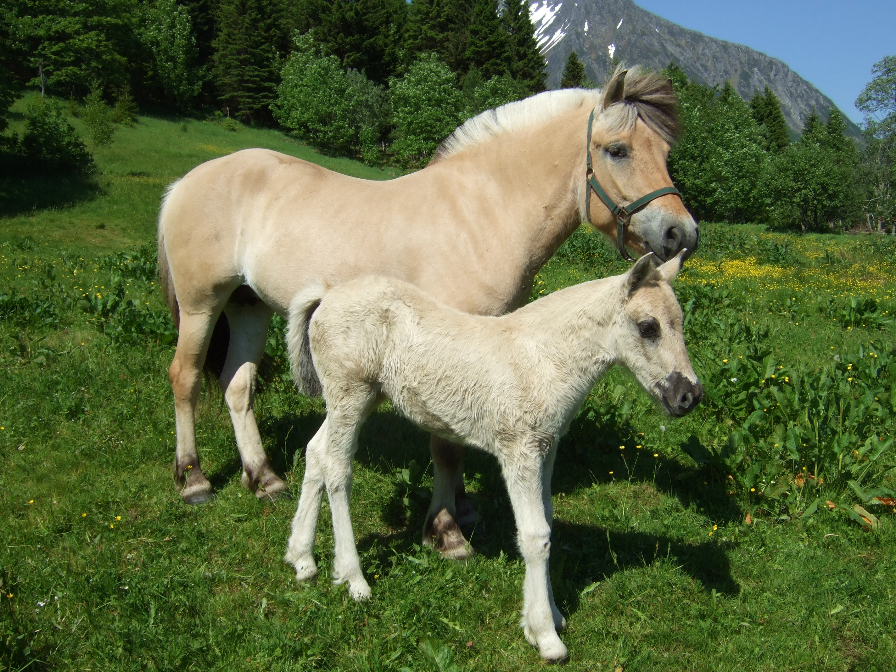 Fjord horses in Ørsta, Norway.